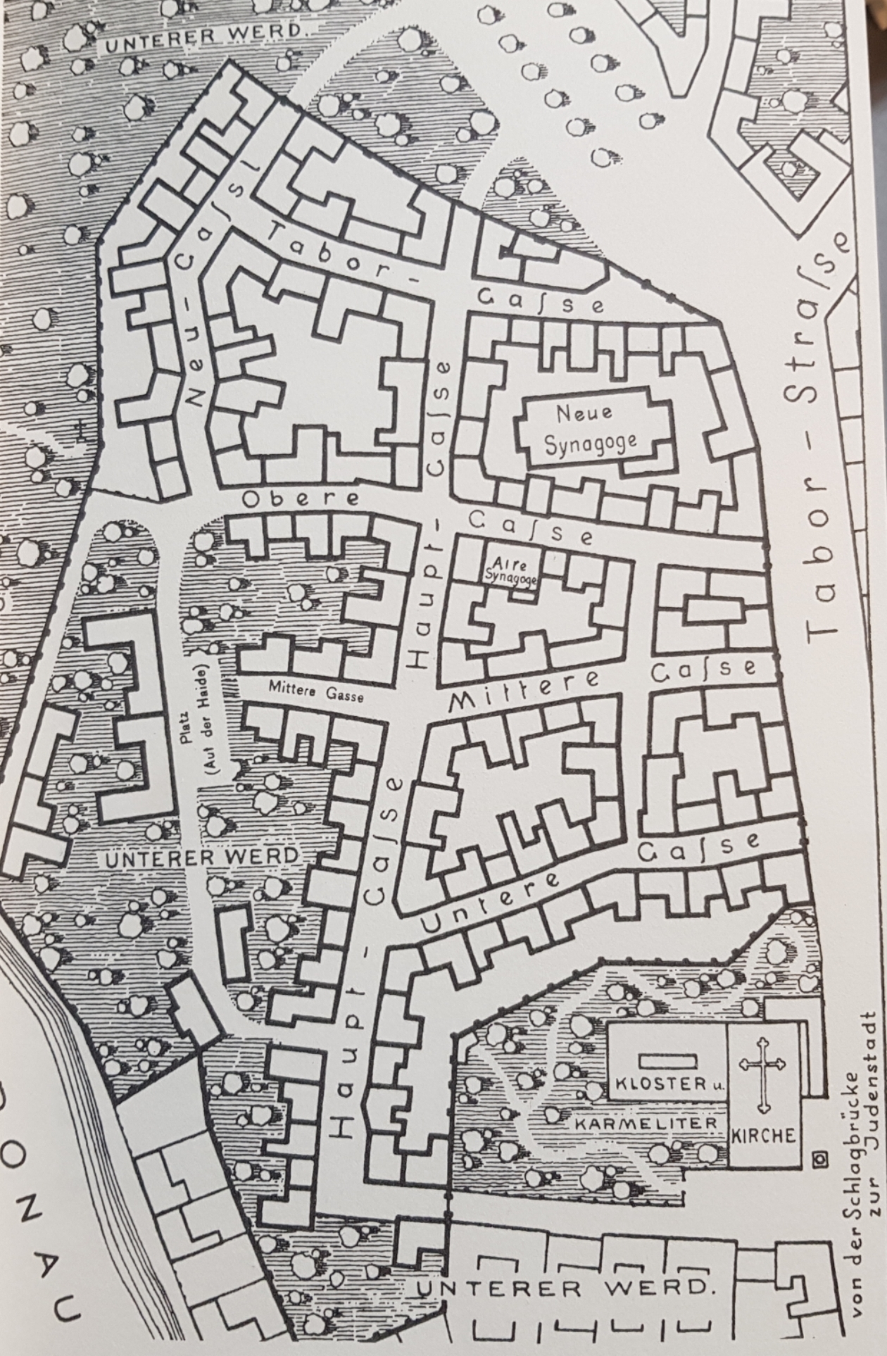 The Viennese jewsish quarter "Am Unteren Werd" around the time of the expulsion of the Jews in 1670, by Ignaz Schwarz